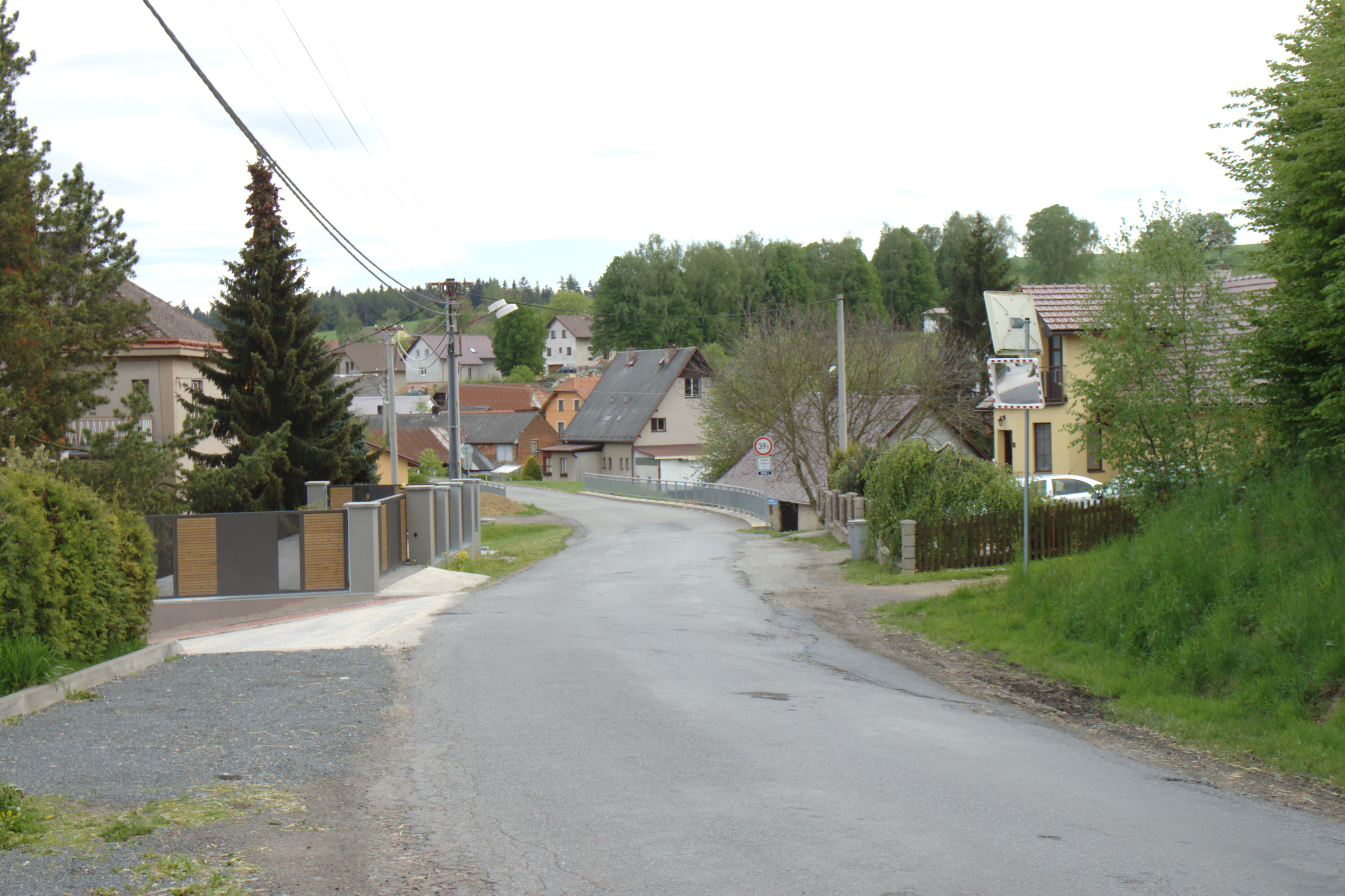 Village of Jitkov in Havlíčkův Brod District, Vysočina Region, CZ